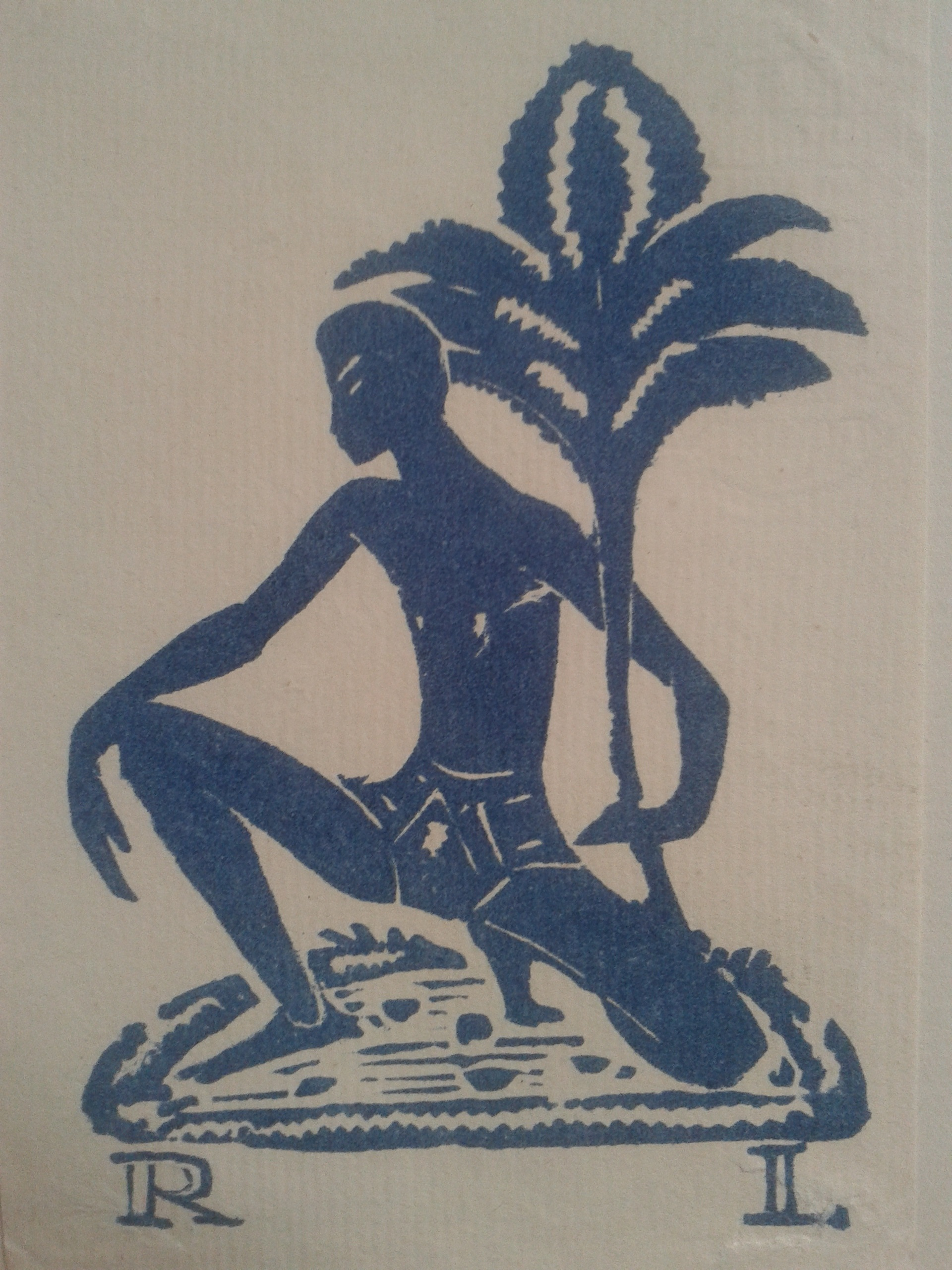 Walter Herzberg: Exlibris for Rudolf Loew, Klausenburg, ca. 1922